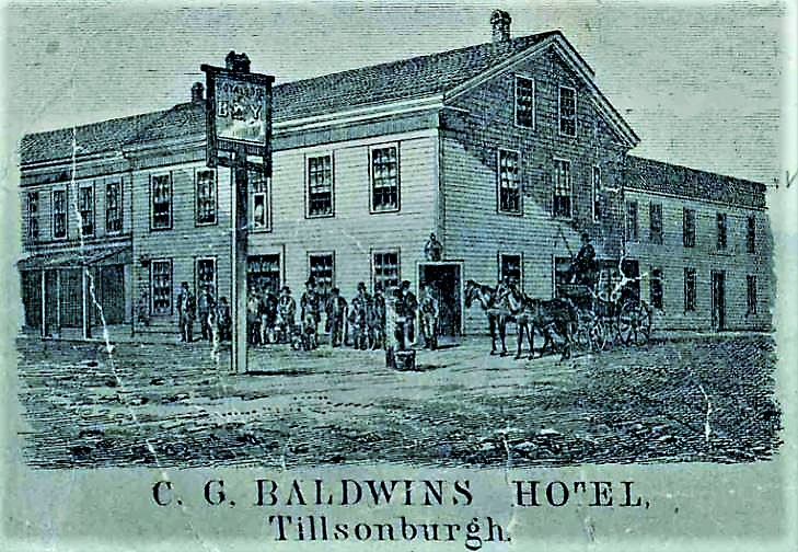 derivative work created from cropped and enhanced image of Baldwin Hotel, Tillsonburgh, Ontario, which was included on margin of map of Oxford County which is in the public domain, published by George C. Tremaine in 1857.